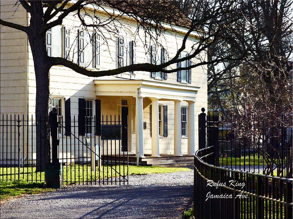 Front porch Rufus King Home on Jamaica Ave